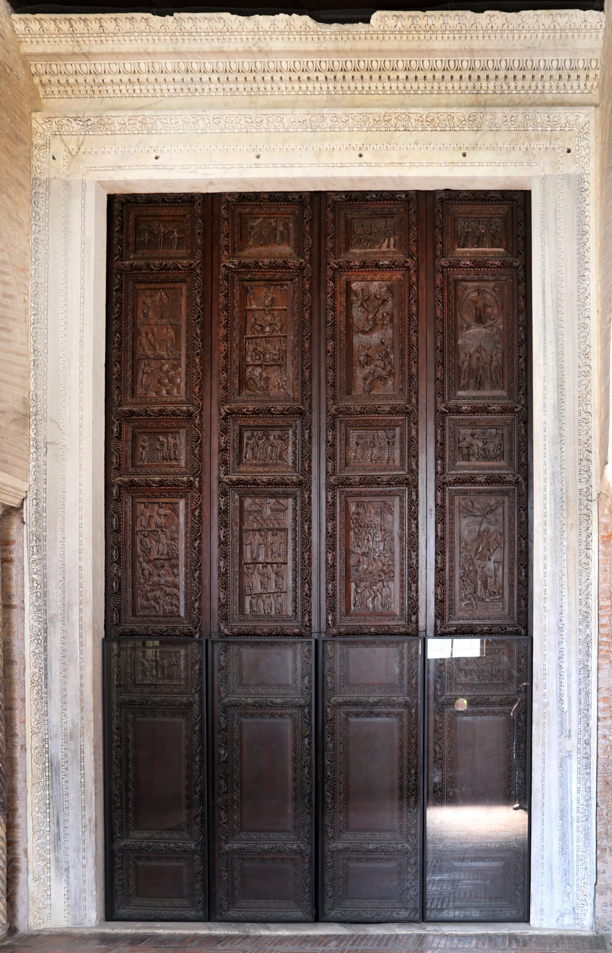 Doors of Santa Sabina (Rome)